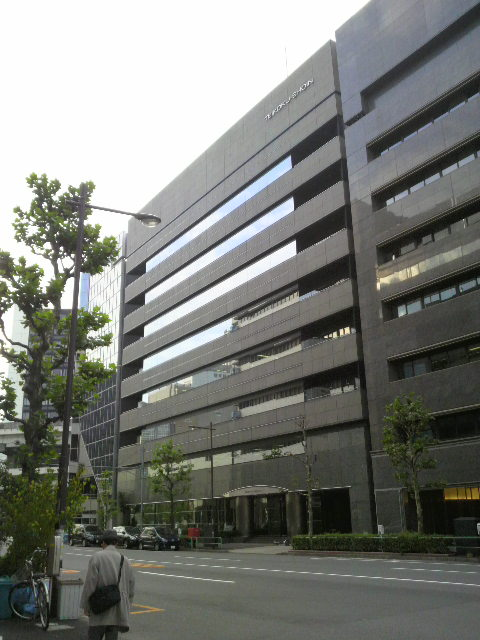 teikokushoin